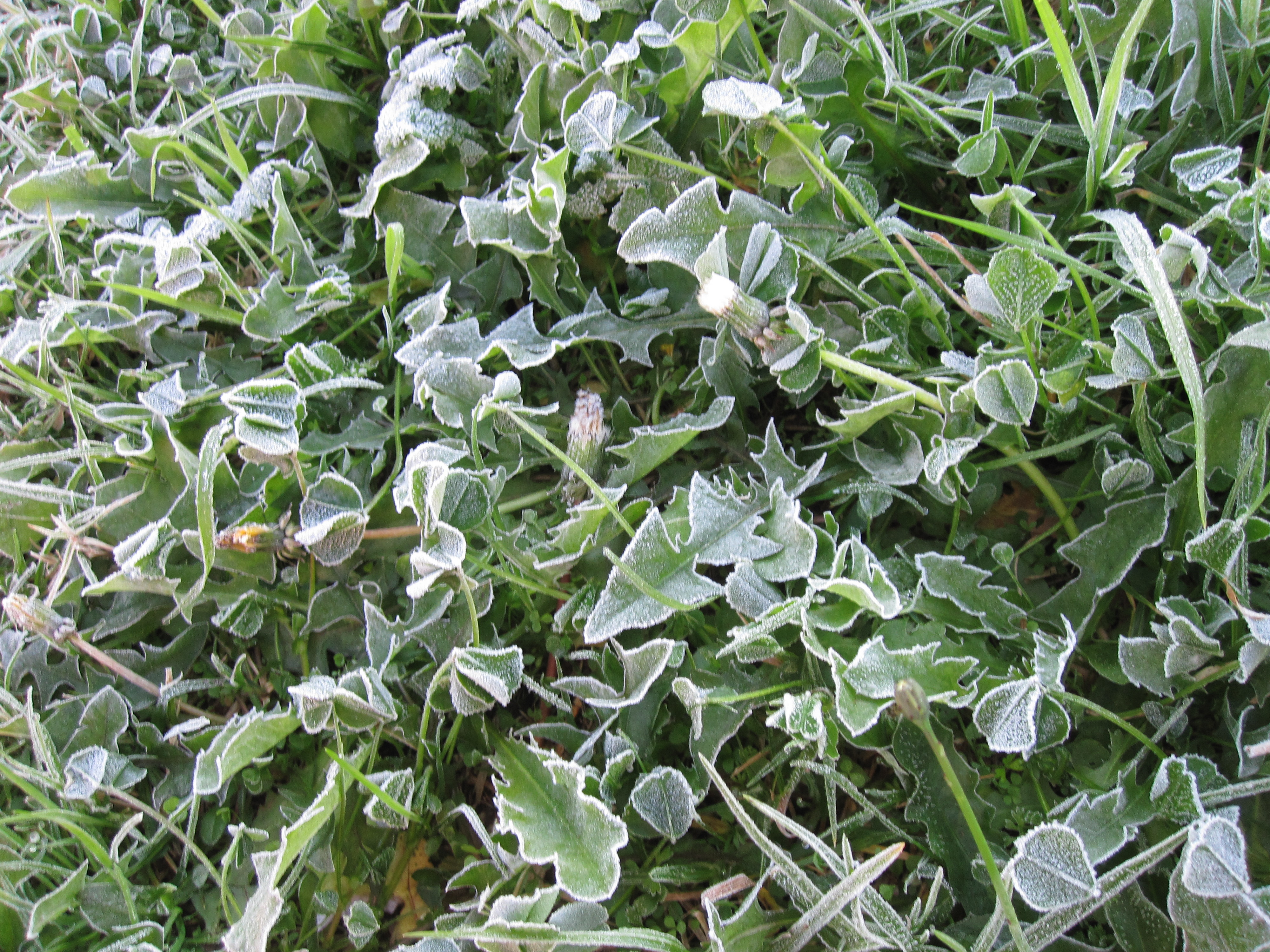 frost on grass